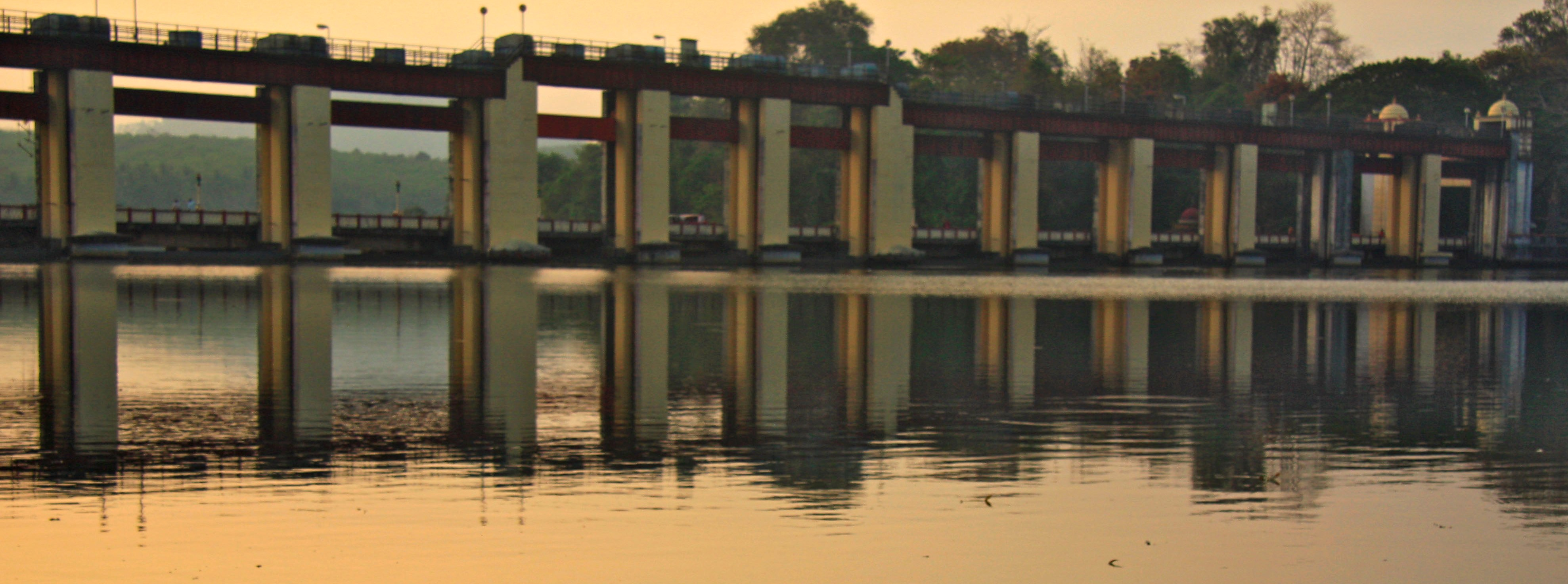 Bhoothathankettu dam near Kothamangalam, Kerala, India